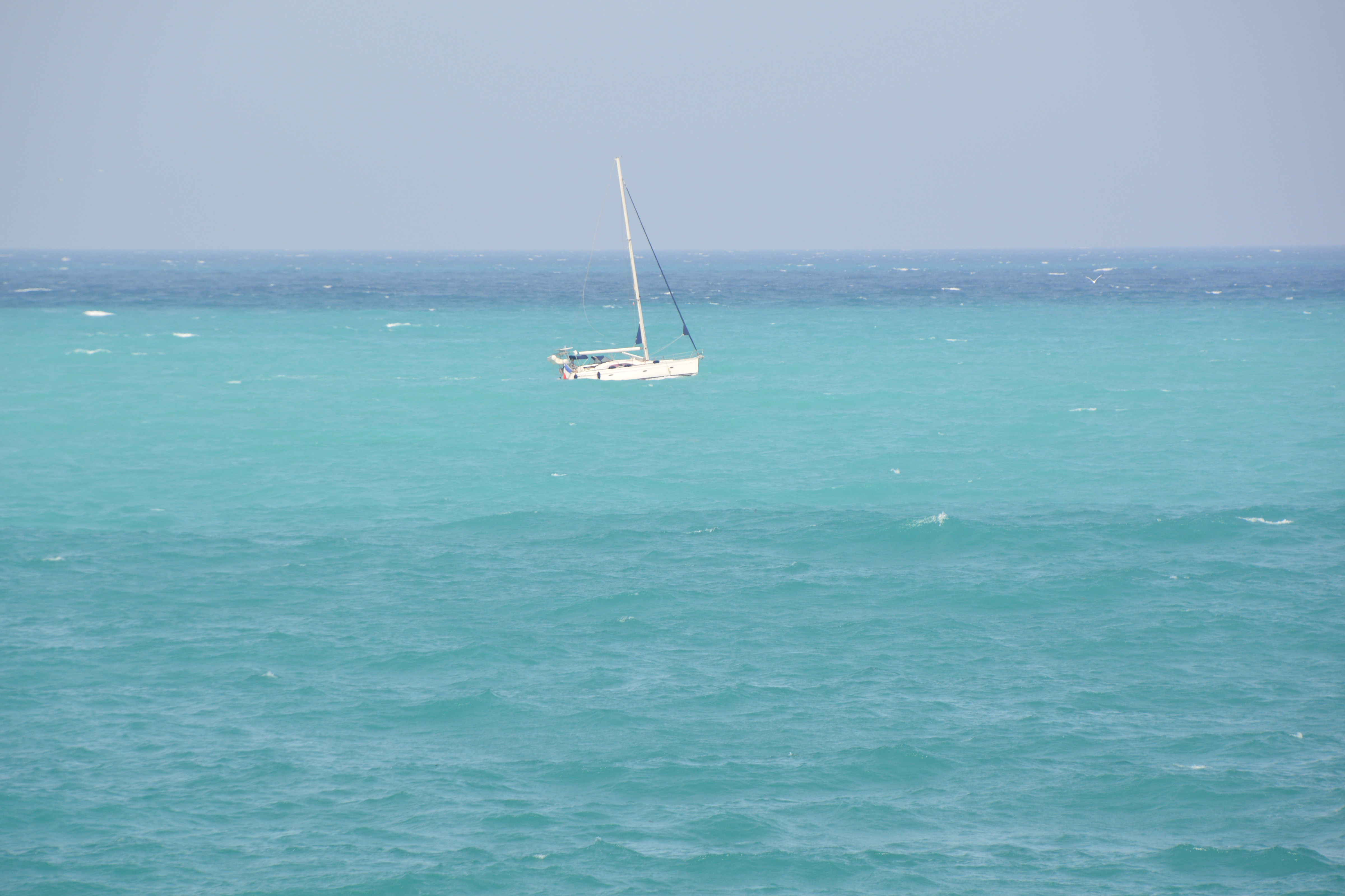 The Mediterrenean Sea outside Antibes in Cote d'Azur, France